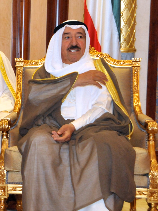 U.S. Secretary of State John Kerry meets with Kuwaiti Amir Sheikh Sabah Al-Ahmed Al-Sabah during a visit to Kuwait City, Kuwait, on June 26, 2013. [State Department photo/ Public Domain]